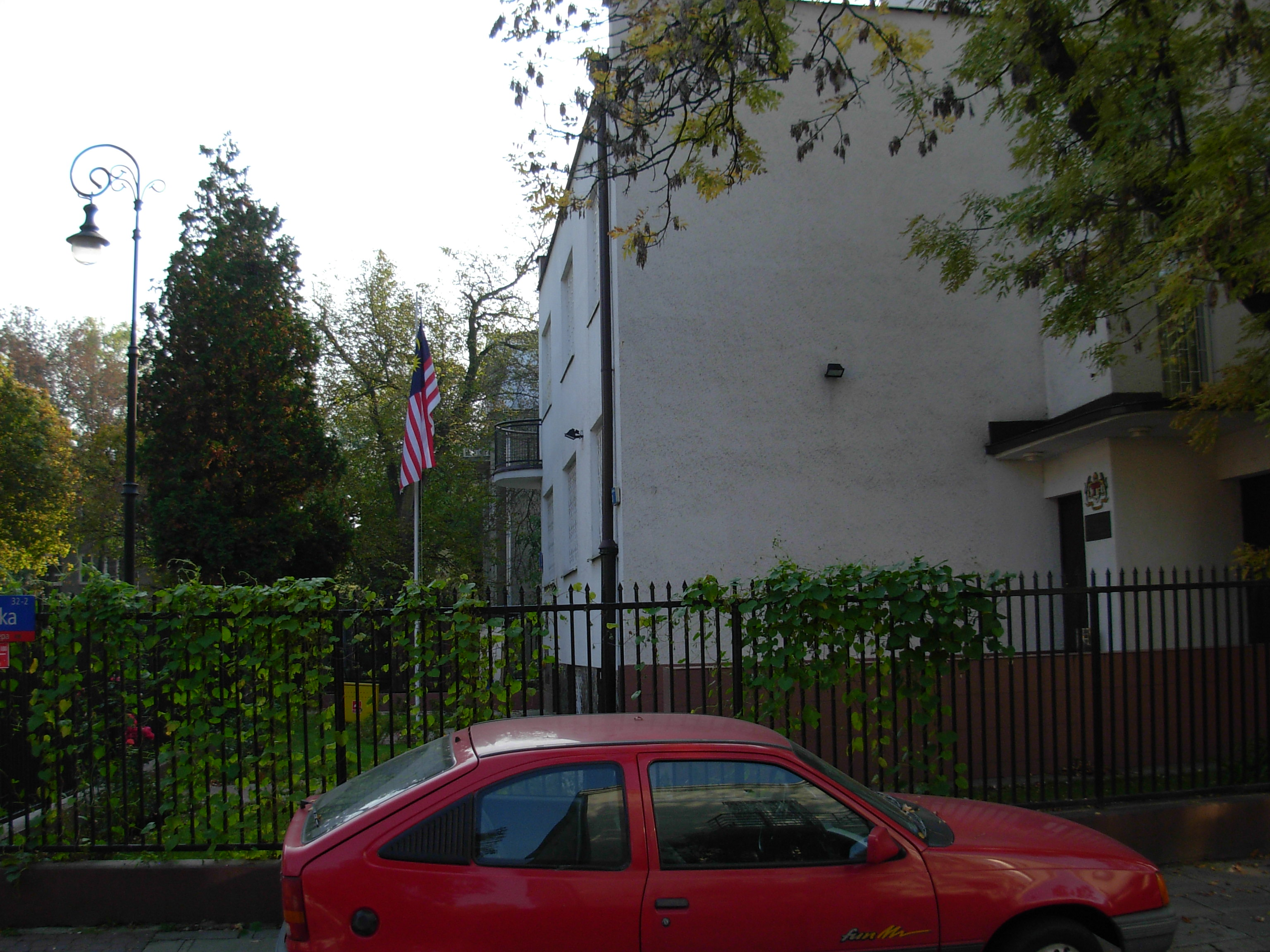 Embassy of Malaysia in Warsaw